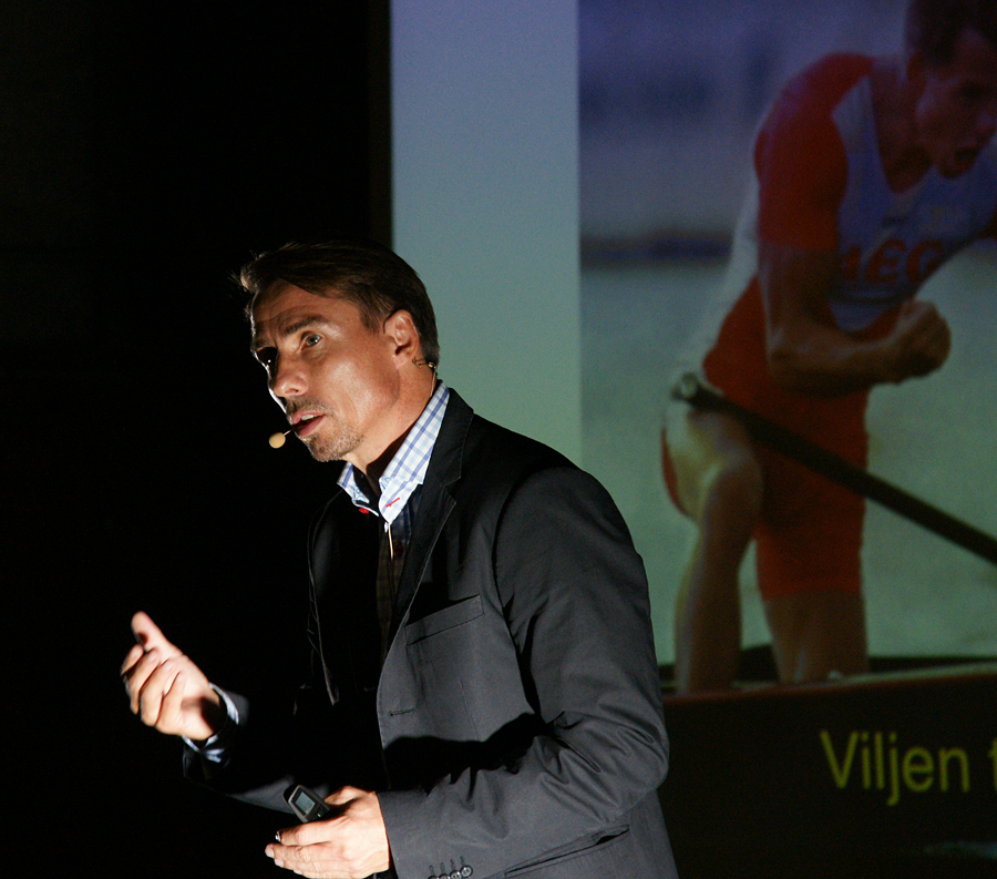 Arne Nielsson, Danish coach, writer and former canoer, winner of several world championship titles